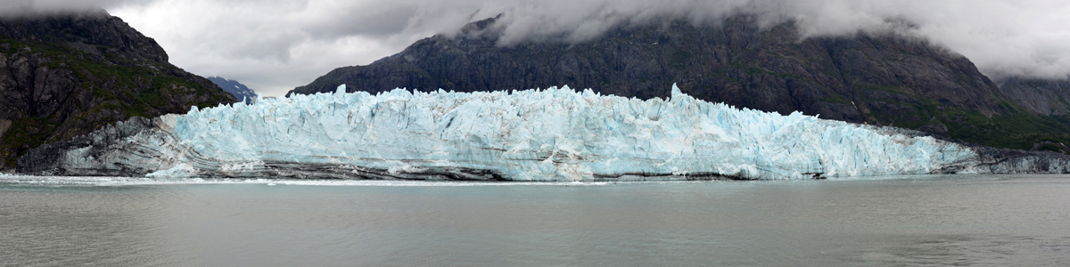 Lamplugh Glacier, 23 August 2011